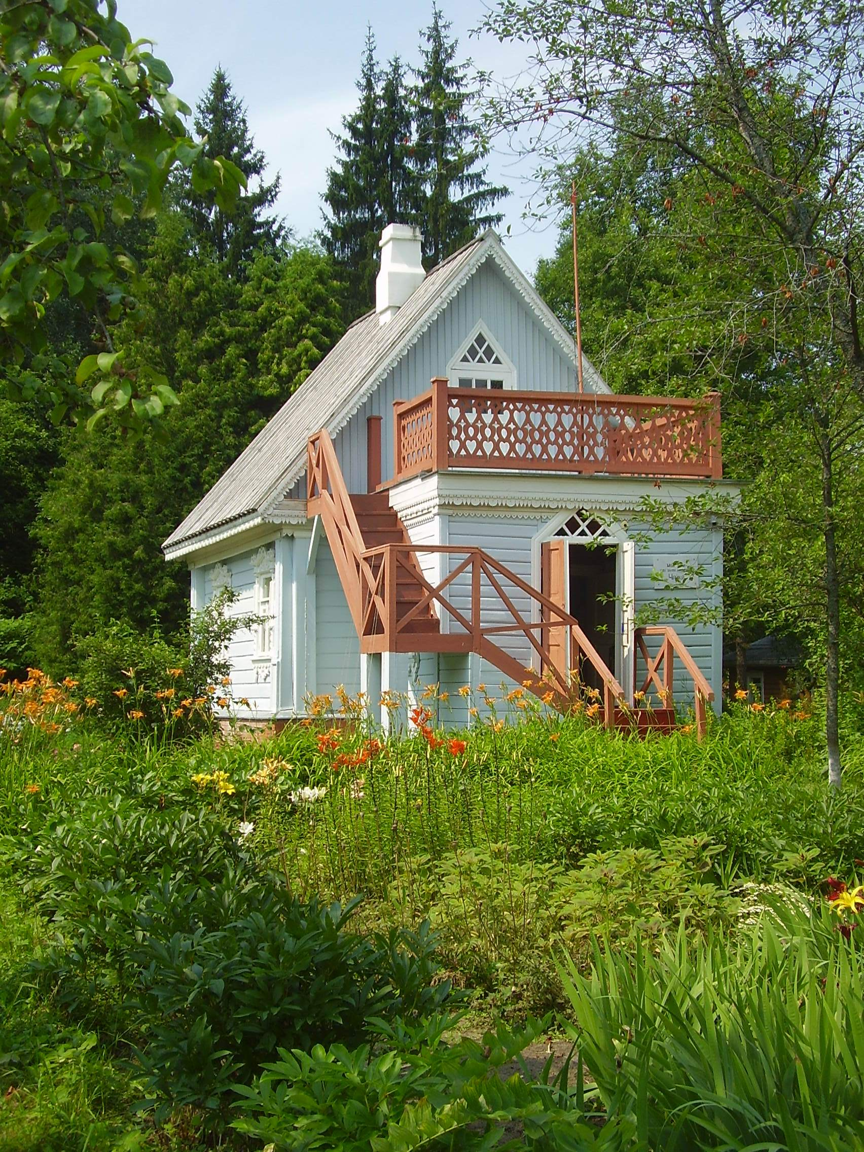 Guest cottage at Melikhovo where Chekhov wrote The Seagull